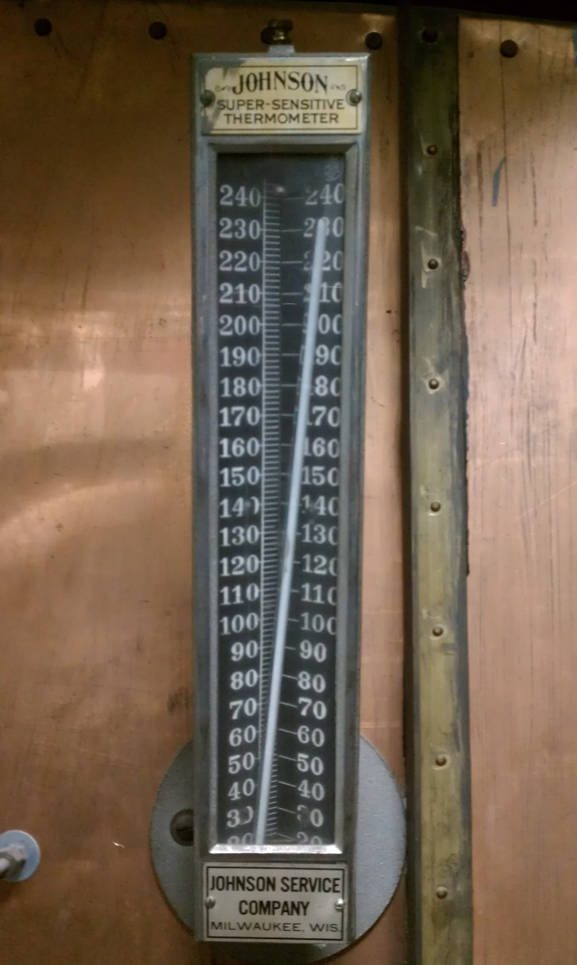 An old "Super-Sensitive Thermometer" by Johnson Service Company — the original name of Johnson Controls — on an air-conditioning unit. The glass capillary tube has come loose from its attachment and is leaning at an angle within the bezel.